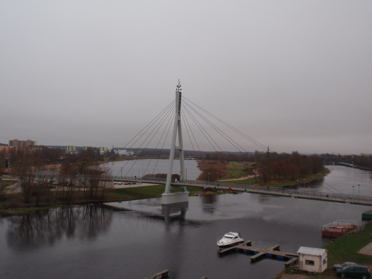 turusild